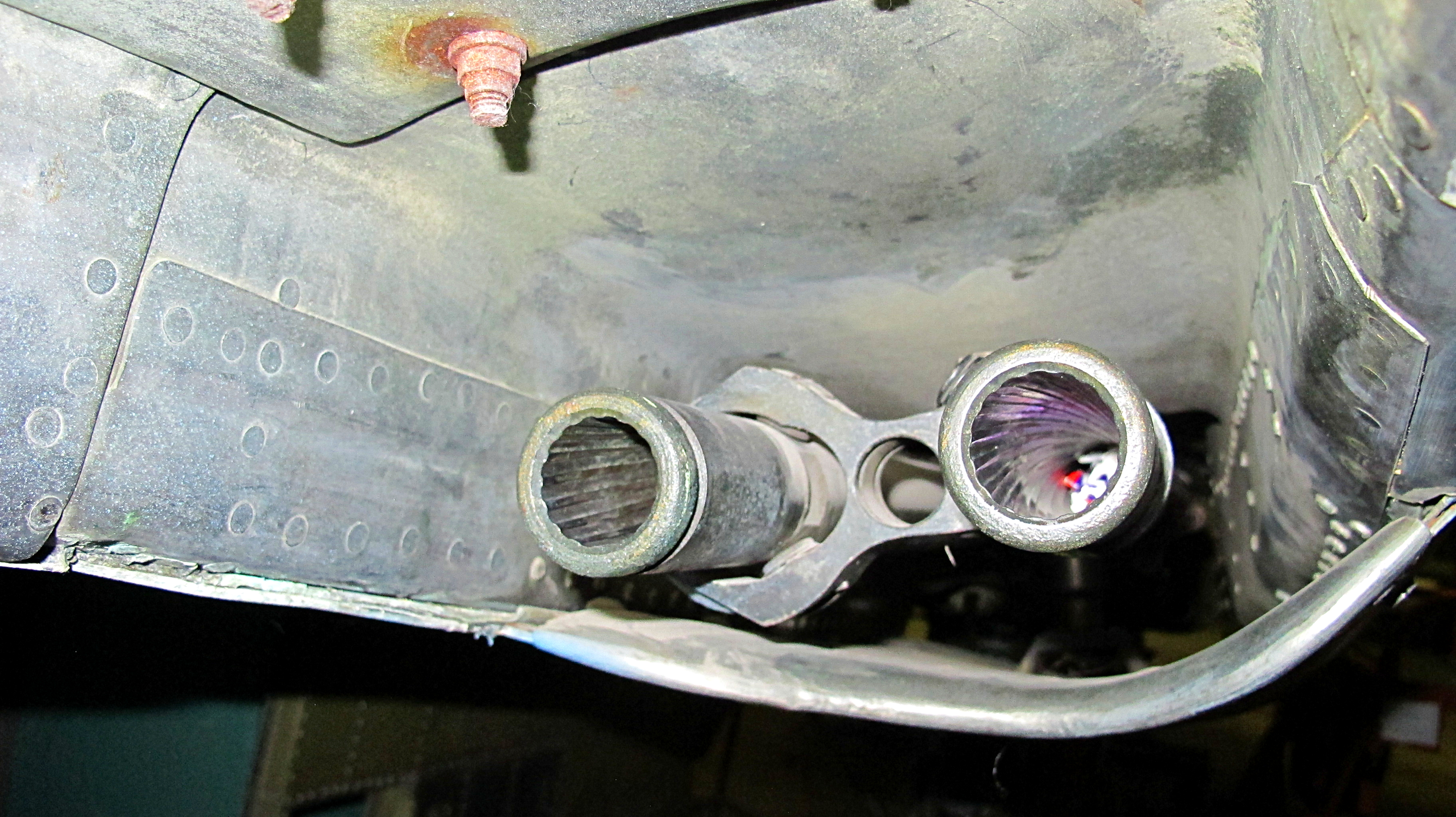 Wikitrip to MAI museum 2016-02-02